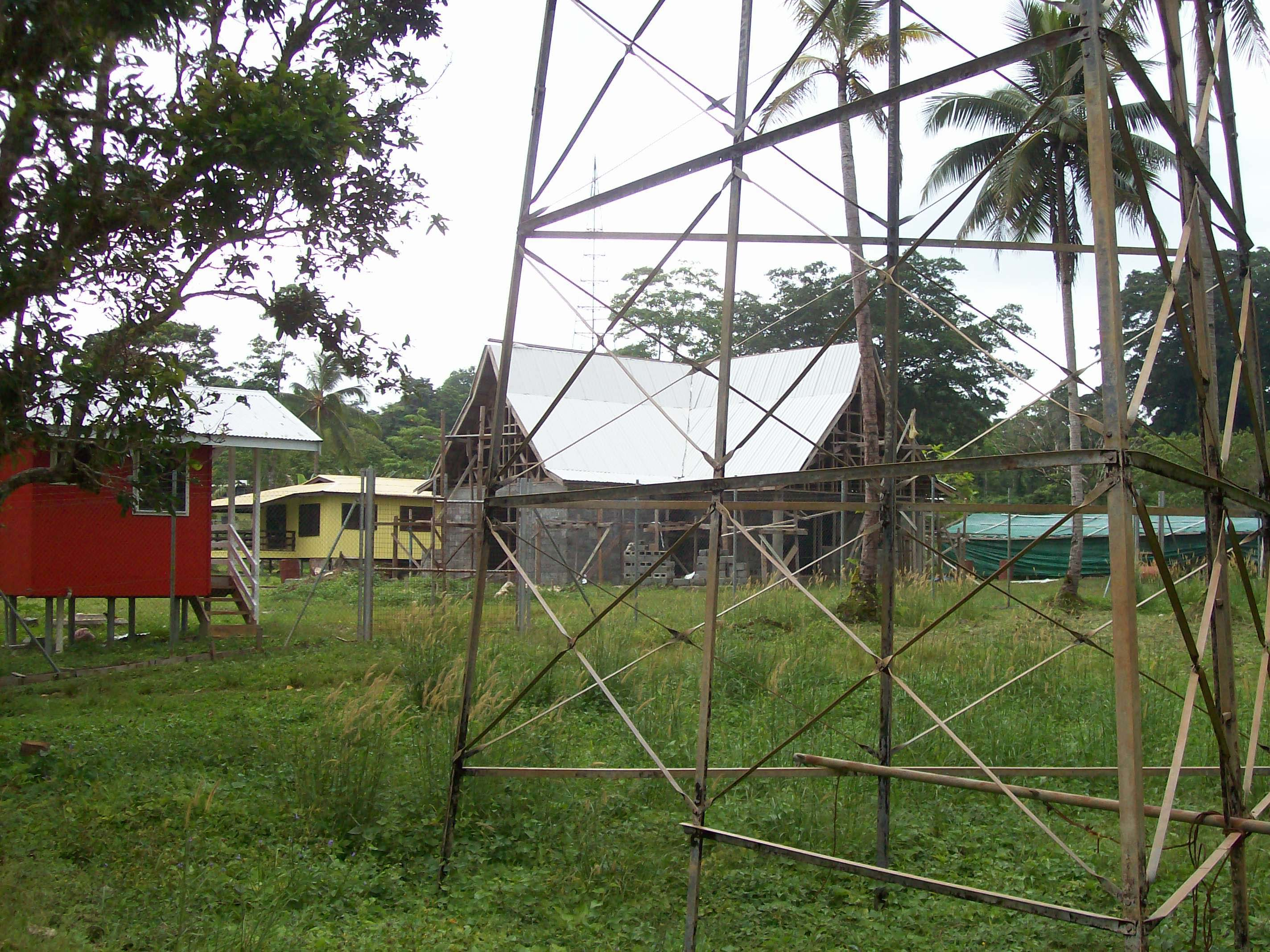 the site of Telekom Tigoa